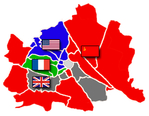 The four sectors of Vienna immediately following World War II